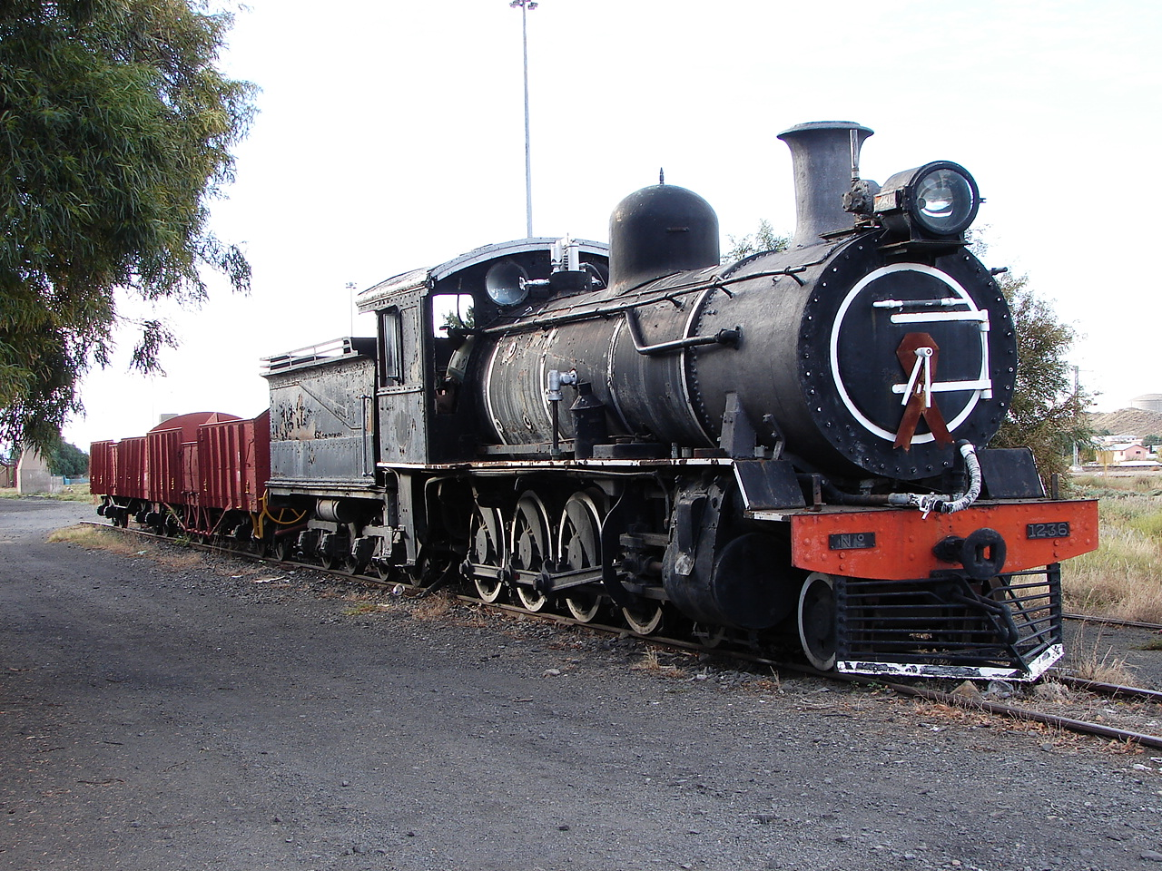 SAR Class 8FW no. 1236 (4-8-0)Location: De Aar, Northern Cape